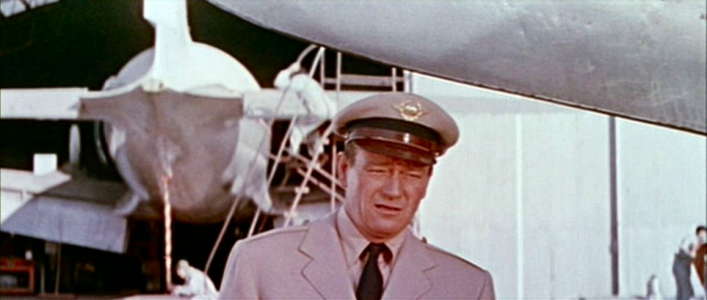 Screenshot showing John Wayne from the film The High and the Mighty.